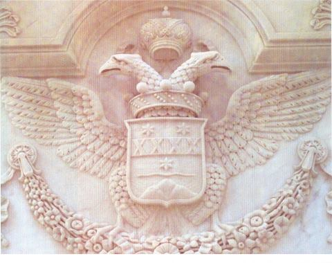 Italian stone rendering of family insignia.